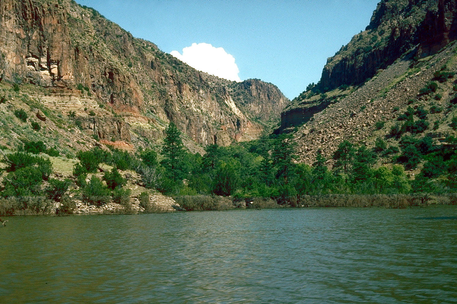 The shoreline of Cochiti Lake behind Cochiti Dam on the Rio Grande in Sandoval County, New Mexico, USA. Coordinates: 35°37′33.52″N 106°19′28.75″W / 35.6259778°N 106.3246528°W